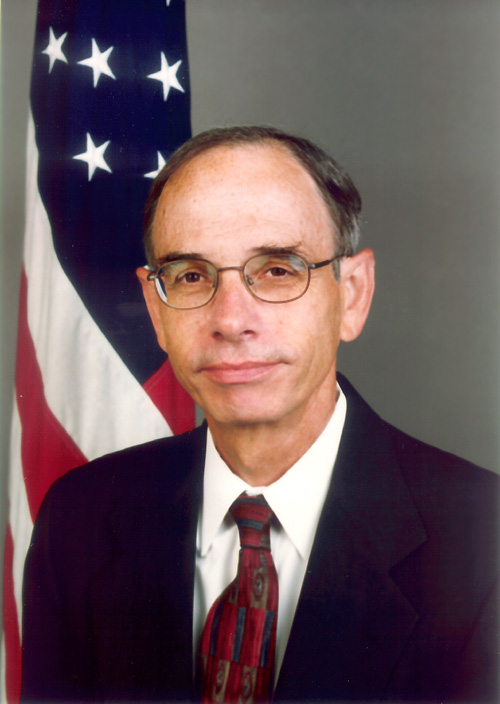 Larry C. Napper official portrait